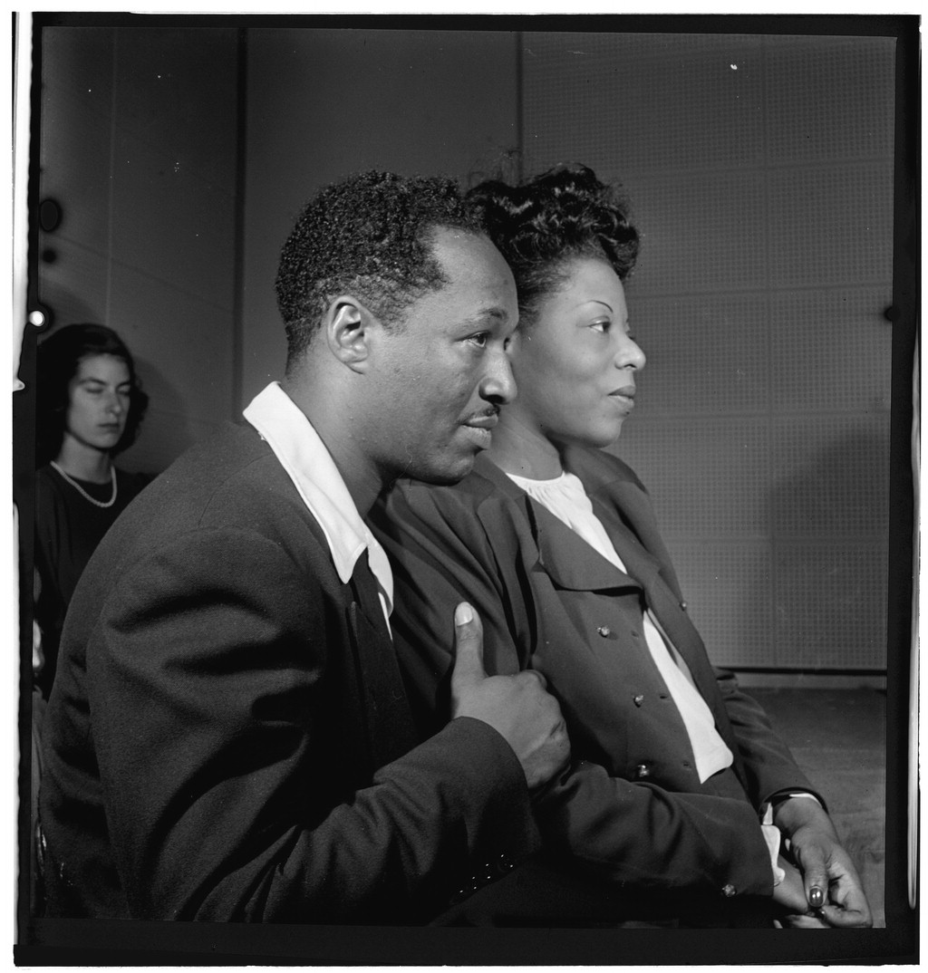 Josh White and Mary Lou Williams, WMCA, NYC